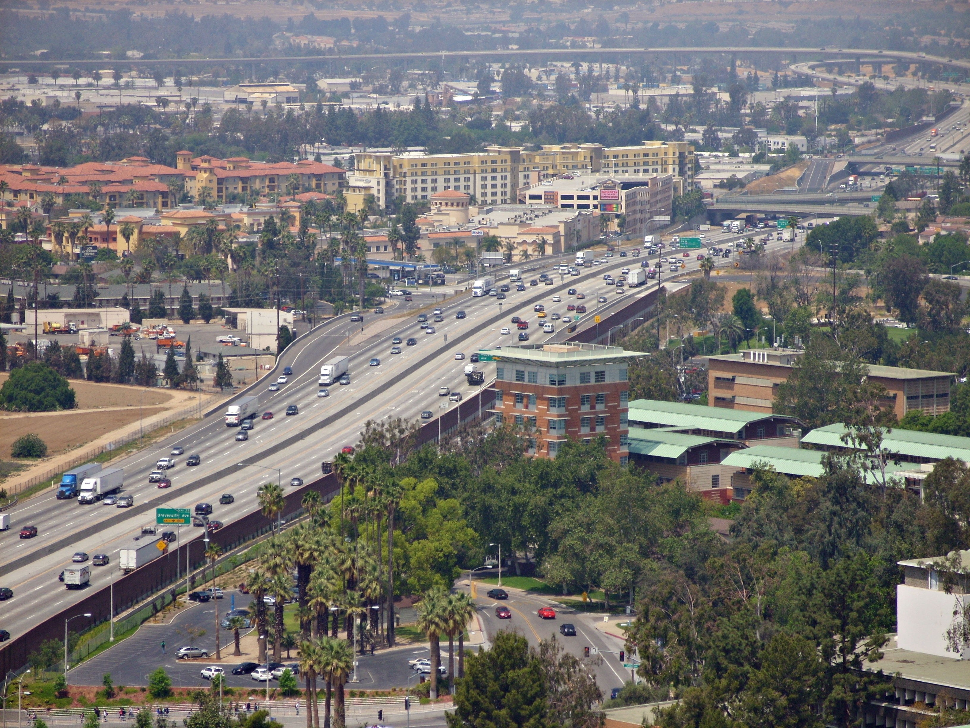 I-215 divides the campus of UCR in Riverside, California, USA.